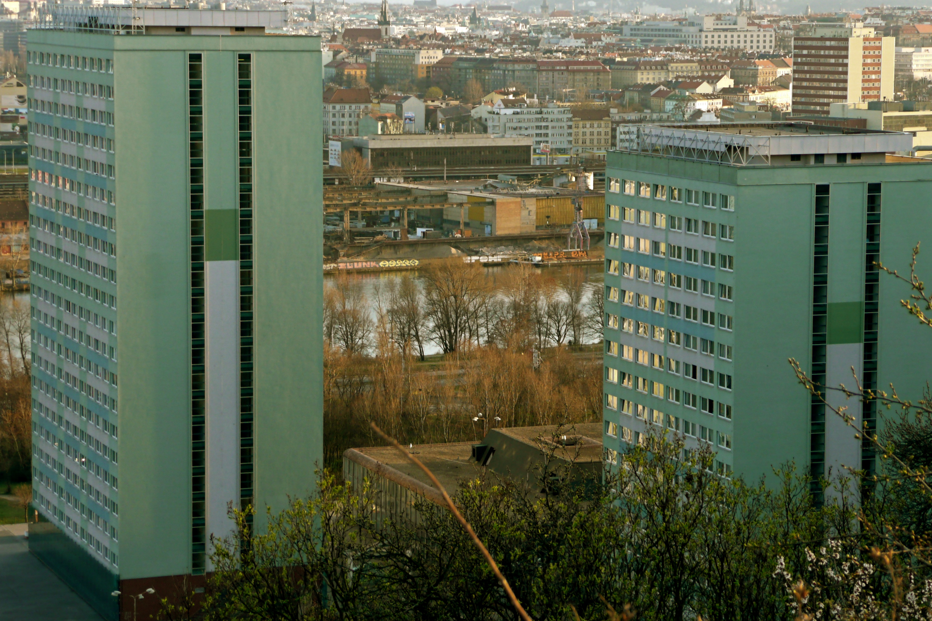 Student dormitory 17 Listopadu (17th of November) in Prague. Photo made in April 2007